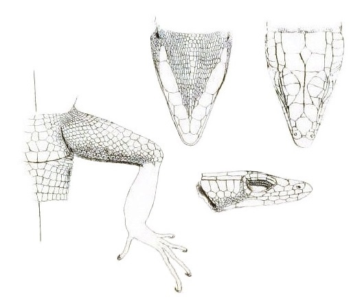 PLATYSAURUS CAPENSIS (Reptilia … Plate 40)Illustrations of the zoology of South Africa. v.3.London: Smith, Elder and Co., 1838-1849.